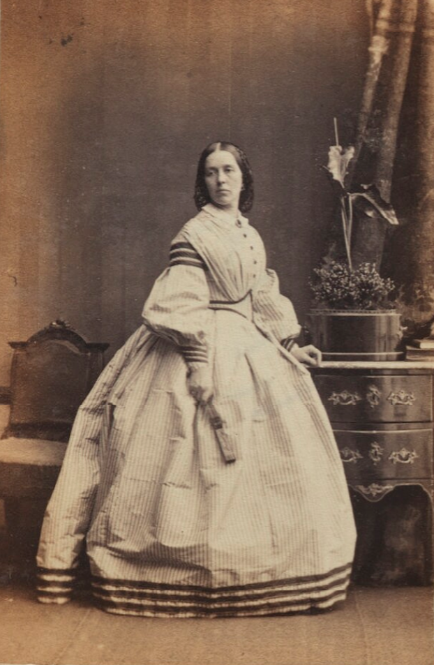 Portrait of Maria Rogers nee Hichens (1822–1911), wife of John Jope Rogers.